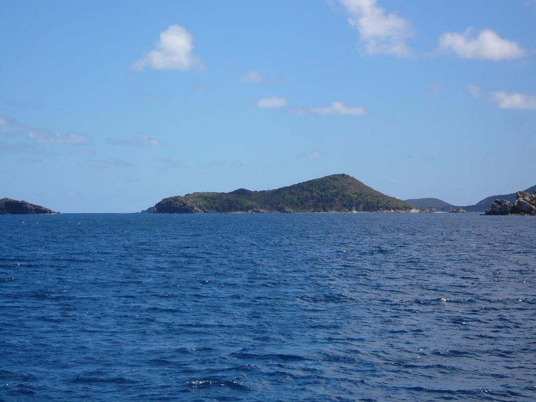 Photograph of George Dog Island, British Virgin Islands